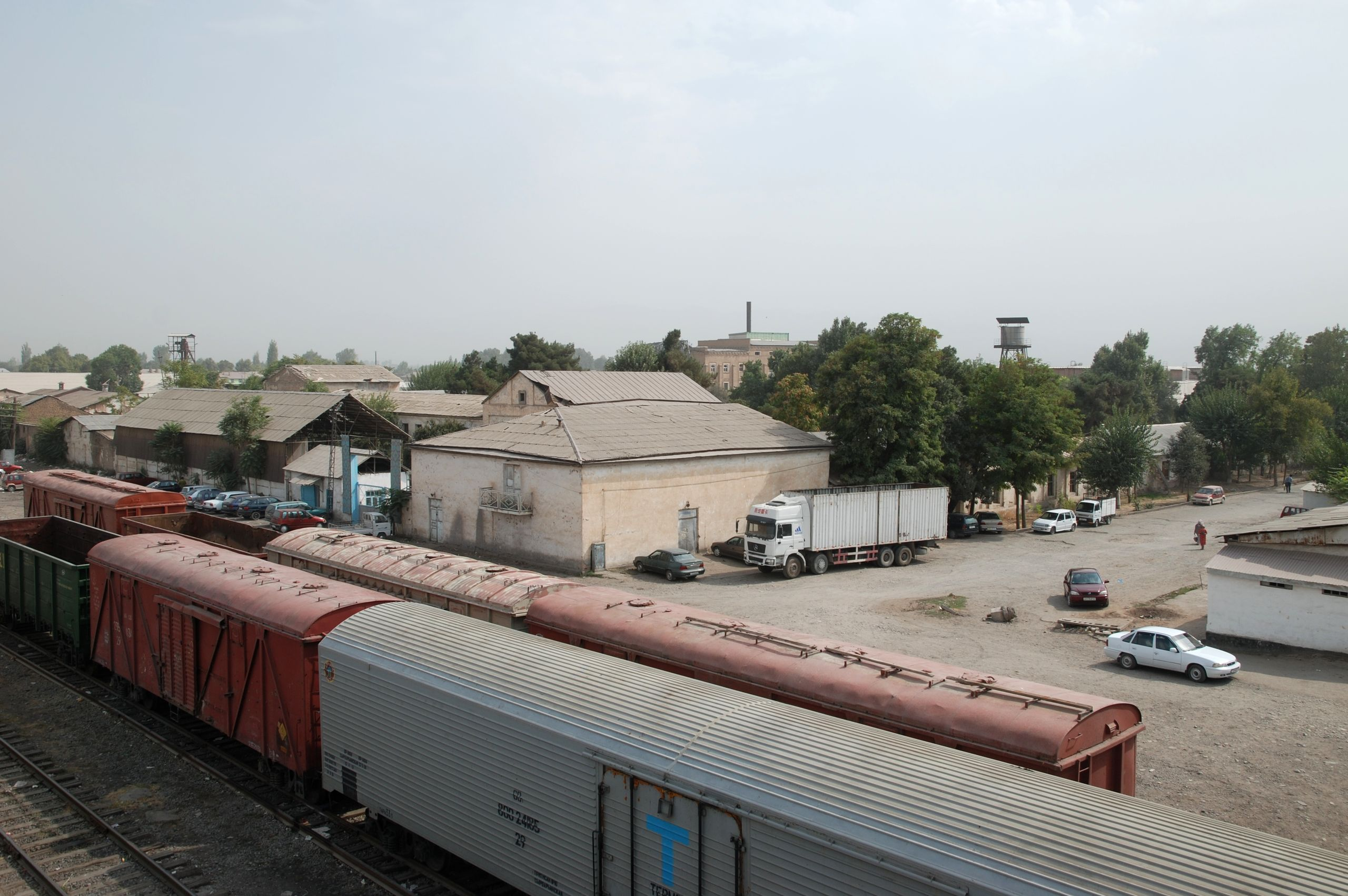 Tursunzoda, south of railway station